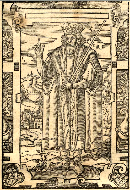 Piastus